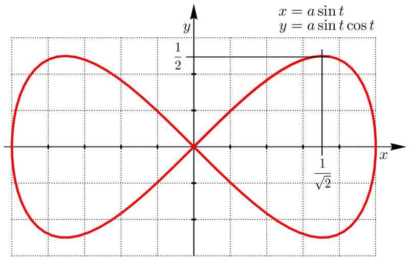 Lemniscate of Gerono with a = 1